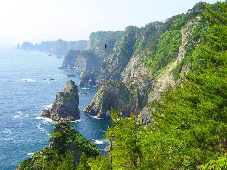 Kitayamazaki-cliff:Tanohata-village,Simohei-county,Iwate-prefecture,Japan